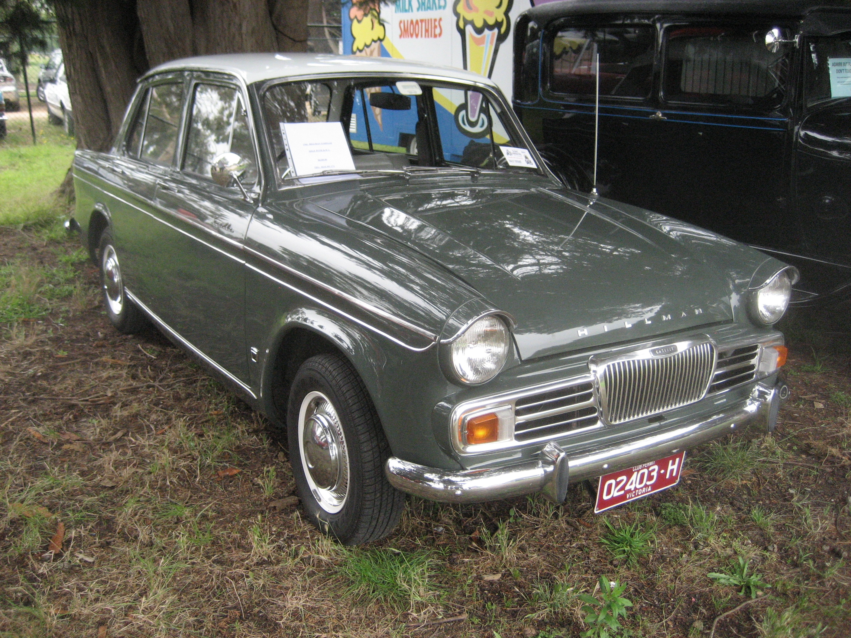 The Hillman Gazelle was unique to Australia. Similar to the English Singer Gazelle and the Hillman Minx. It has the alloy head motor from the Sunbeam Rapier whereas the English Singer Gazelle has the cast iron head. Built by Chrysler Australia from 1966 to 1967. Engine; 1725cc 4 cylinder.